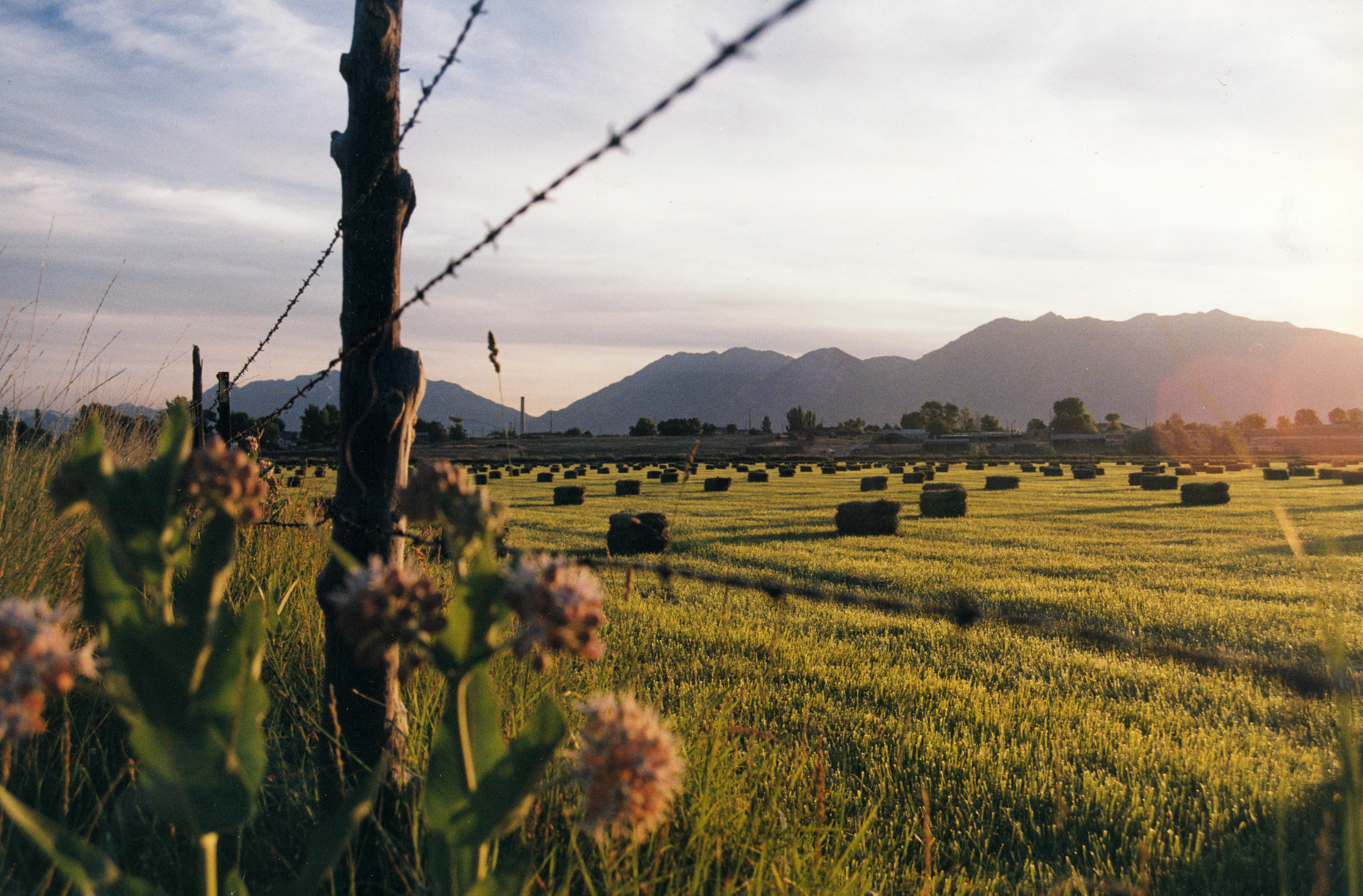 Rural scene in Utah County, Utah